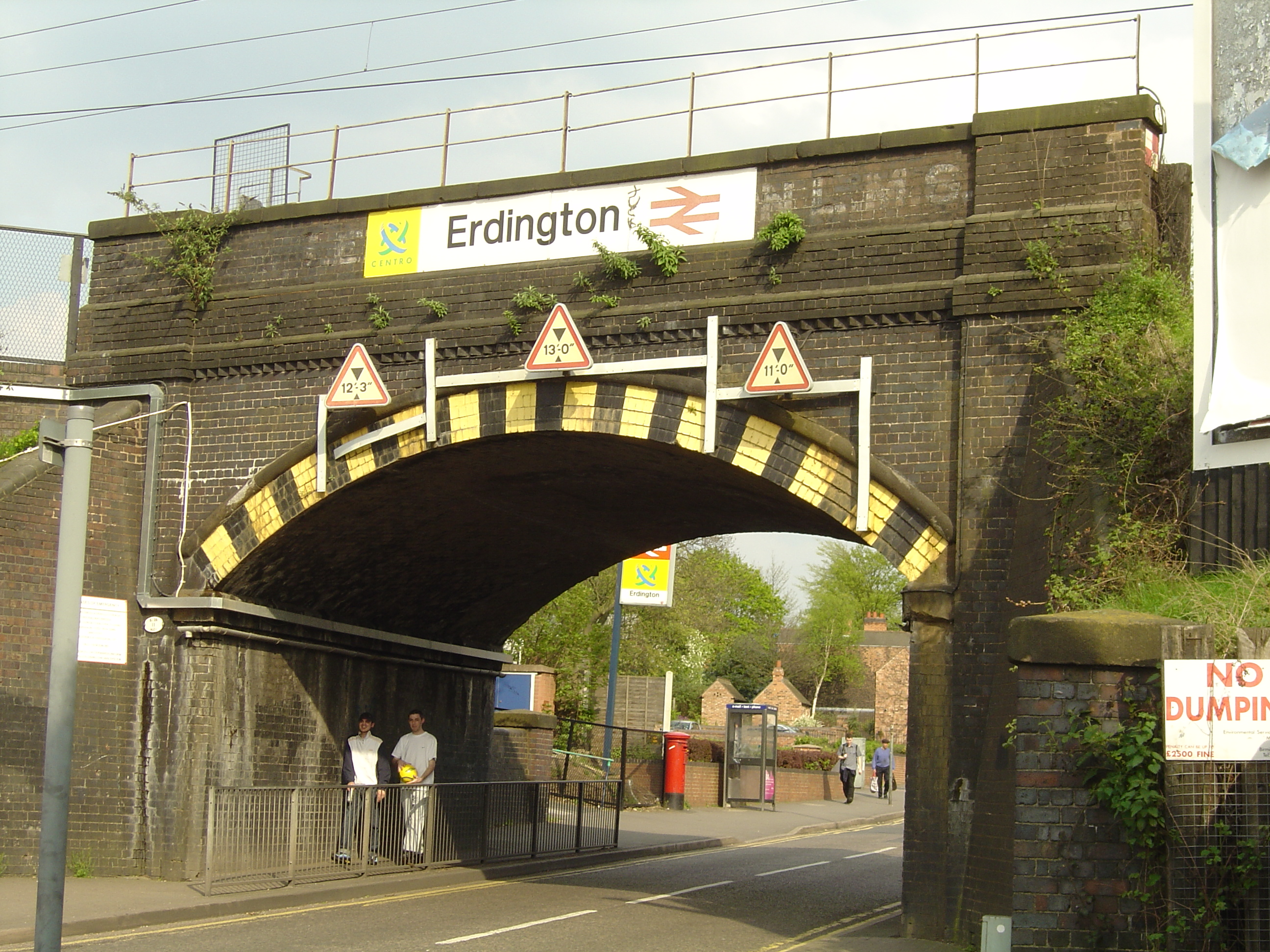 Bridge at Erdington railway station, with the letters LMS (London, Midland and Scottish Railway) still clearly visible.